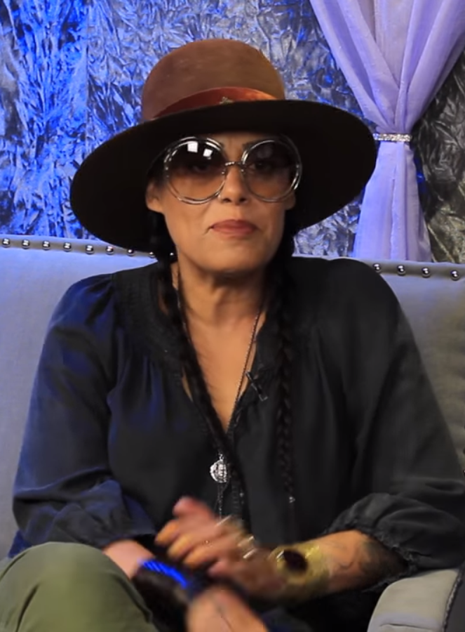 Cree Summer in an interview in 2018